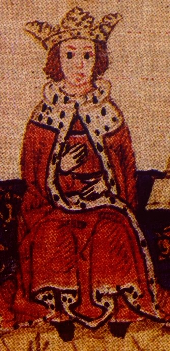 Alexander III seen attending an English parliament as a guest of Edward I of England.